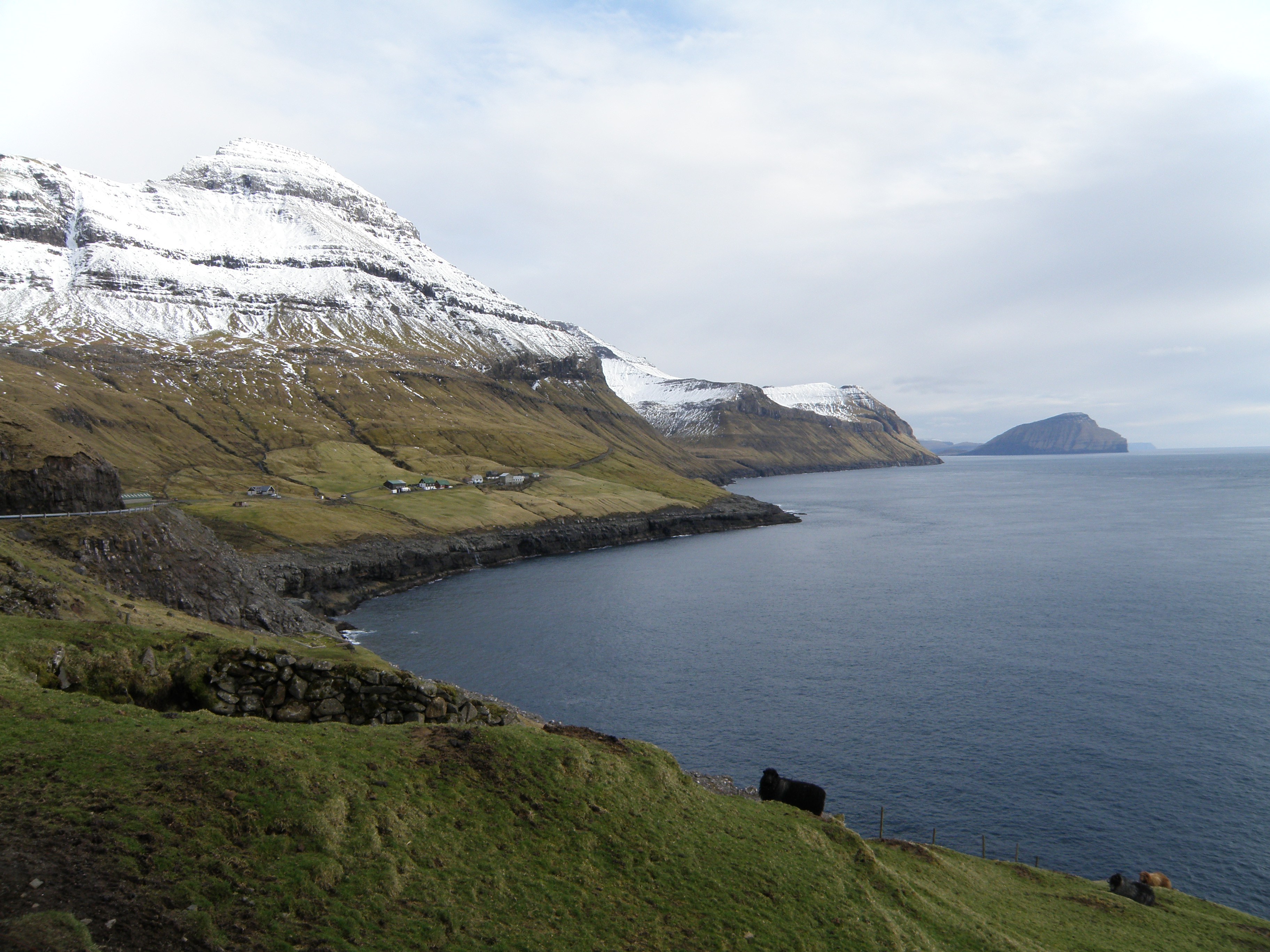 View to the village of Skælingur on Streymoy's west coast. The island Koltur is further south. Faroe Islands. This photo was taken on 3 April 2010 from the road which connects Skælingur with Leynar village. Føroyskt: Skælingur á Streymoynni. Koltur sæst longri suðuri. Myndin varð tikin 3. apríl 2010 frá vegnum millum Leynar og Skæling.